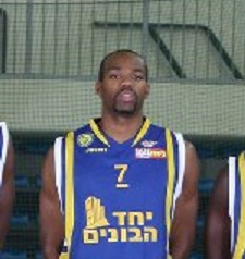 אלכס טיוס במדי מכבי אשדוד (2012). Alex Tyus, Maccabi Ashdod (2012)